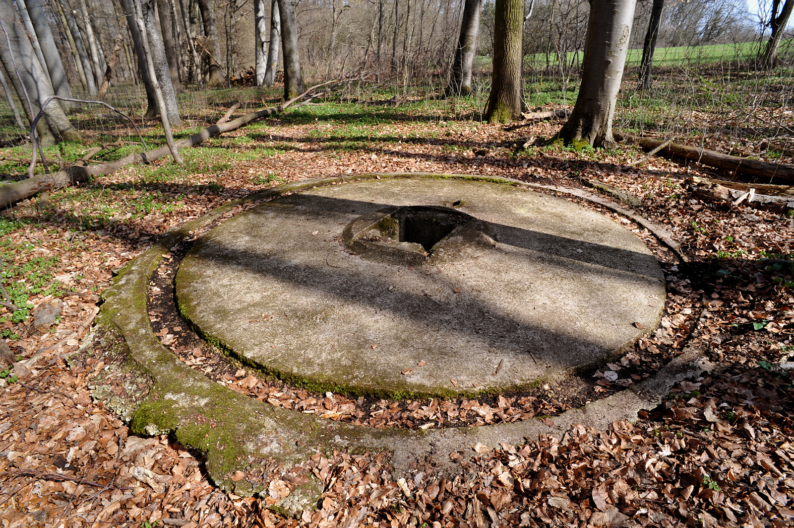 Deployment launch site SW for the Bachem Ba 349 „Natter“ at the Hasenholz forest near Kirchheim unter Teck; Baden-Württemberg, Germany.